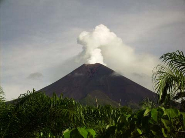 Ulawun issuing passive steaming as seen from the SE side in this undated photo.